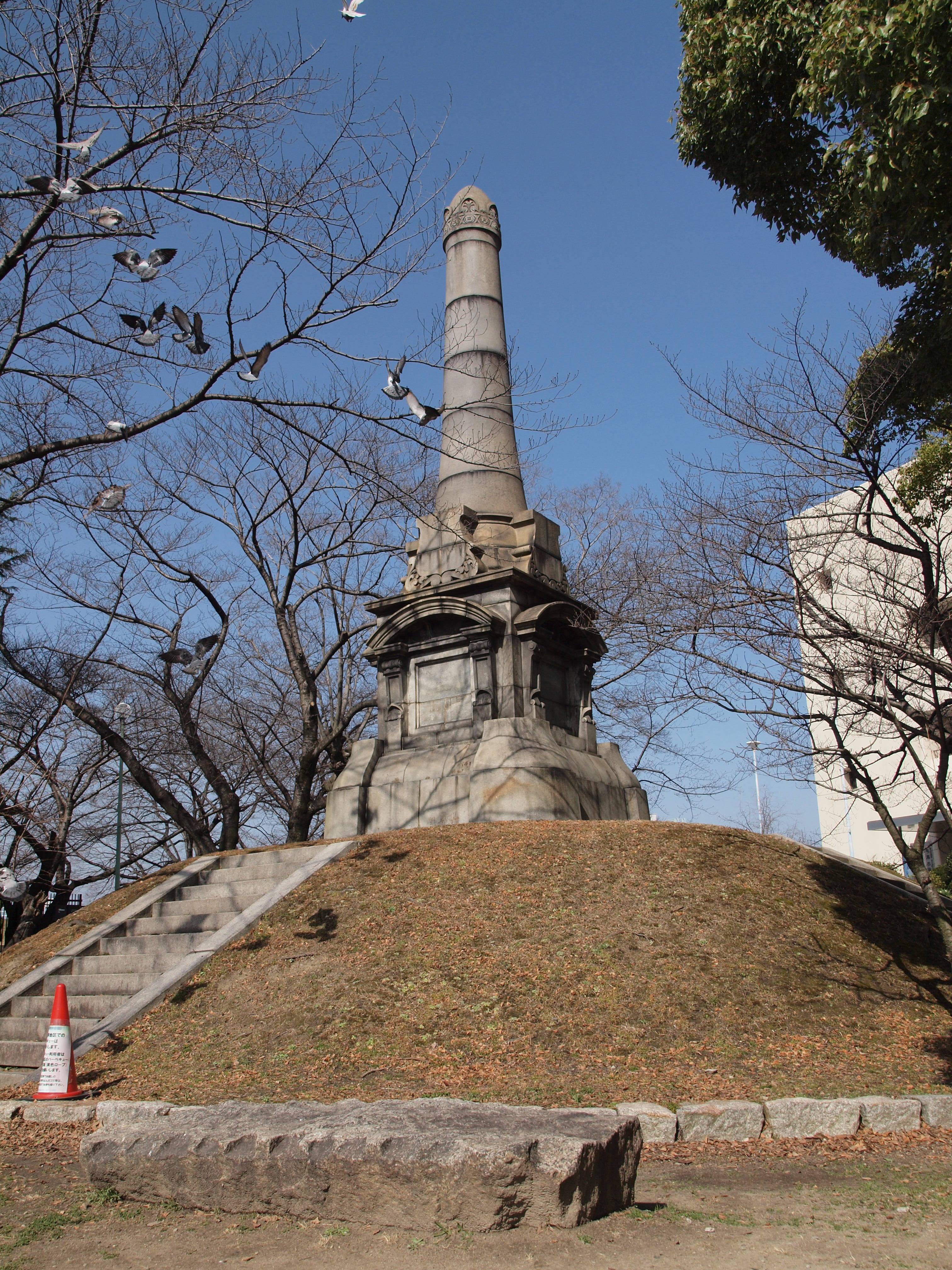 Yodogawa repair monument in Osaka, Japan